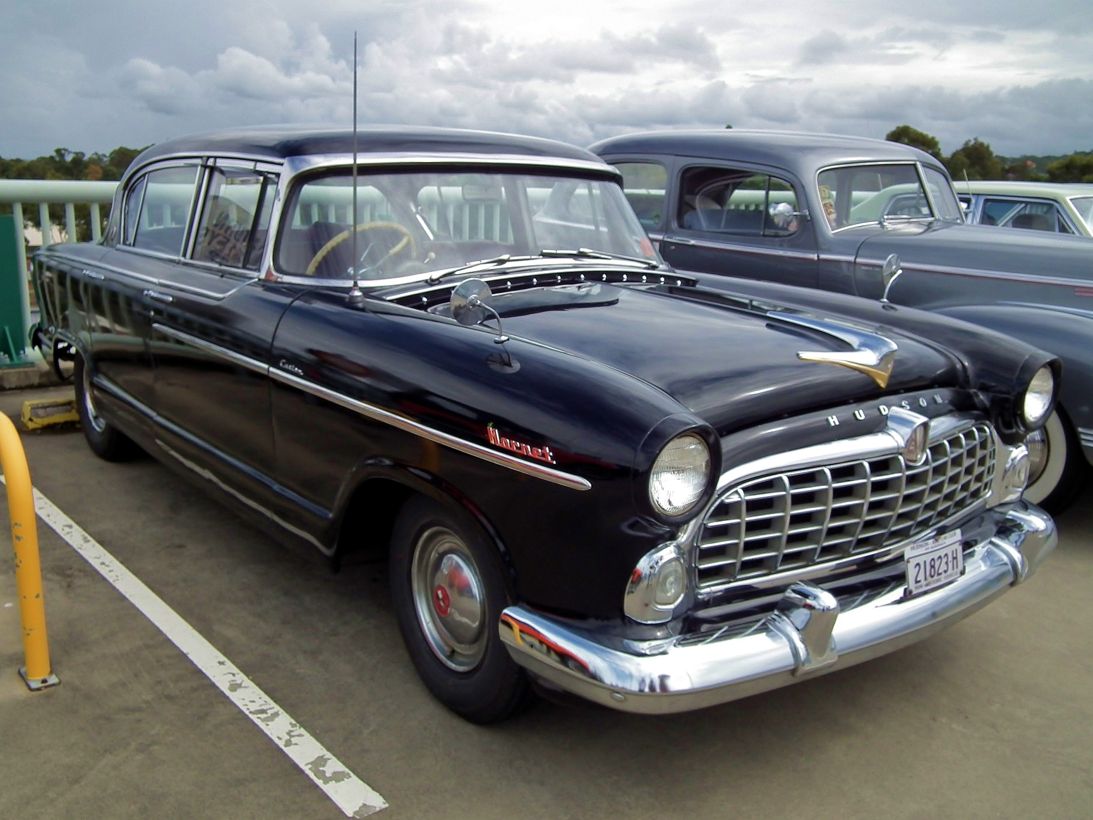 1955 Hudson Hornet Custom sedan. Taken at the 2012 New South Wales All American Day, held at Castle Towers Shopping Centre, Castle Hill, Sydney.